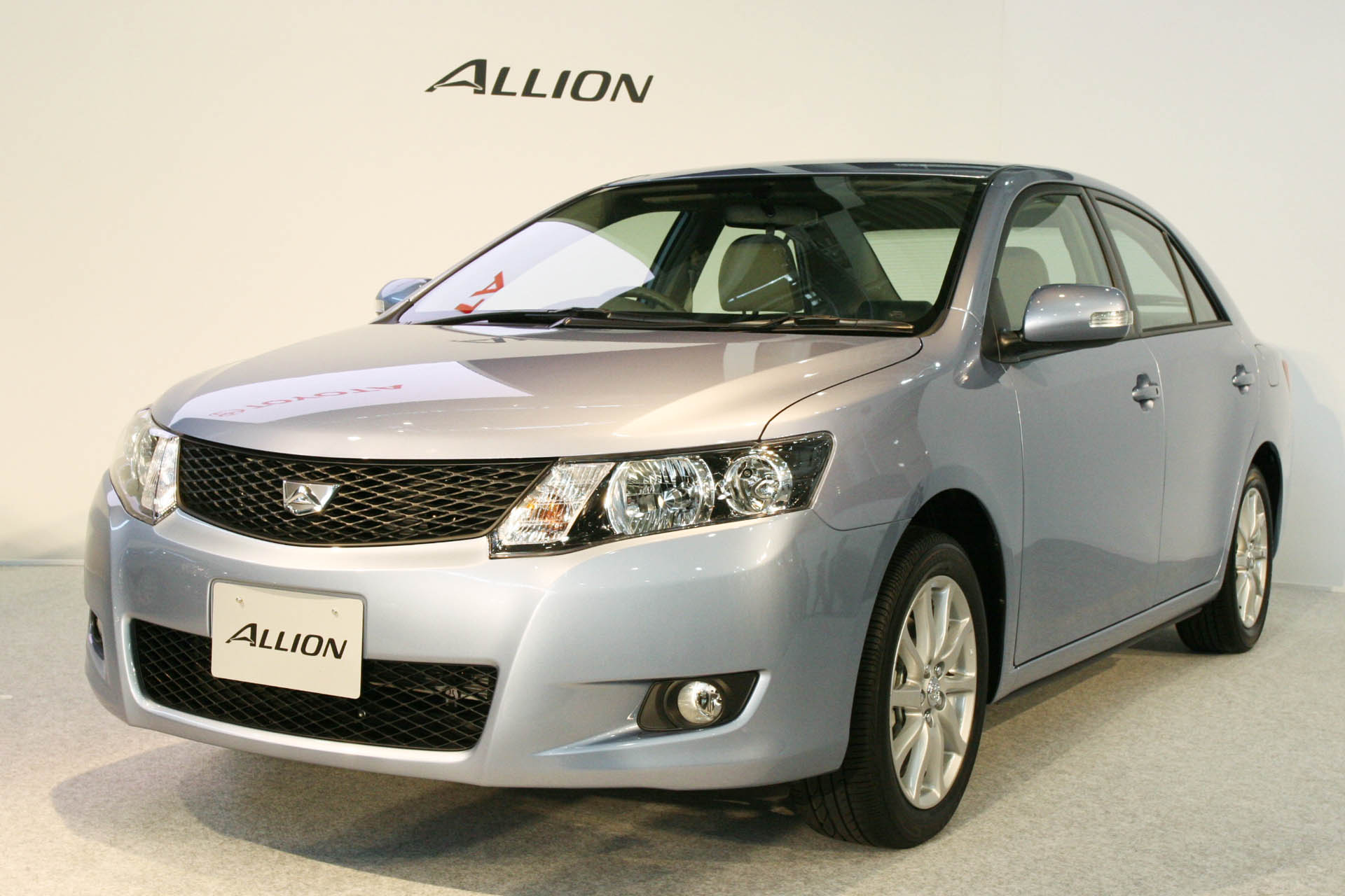 Toyota Allion photographed in MEGAWEB.